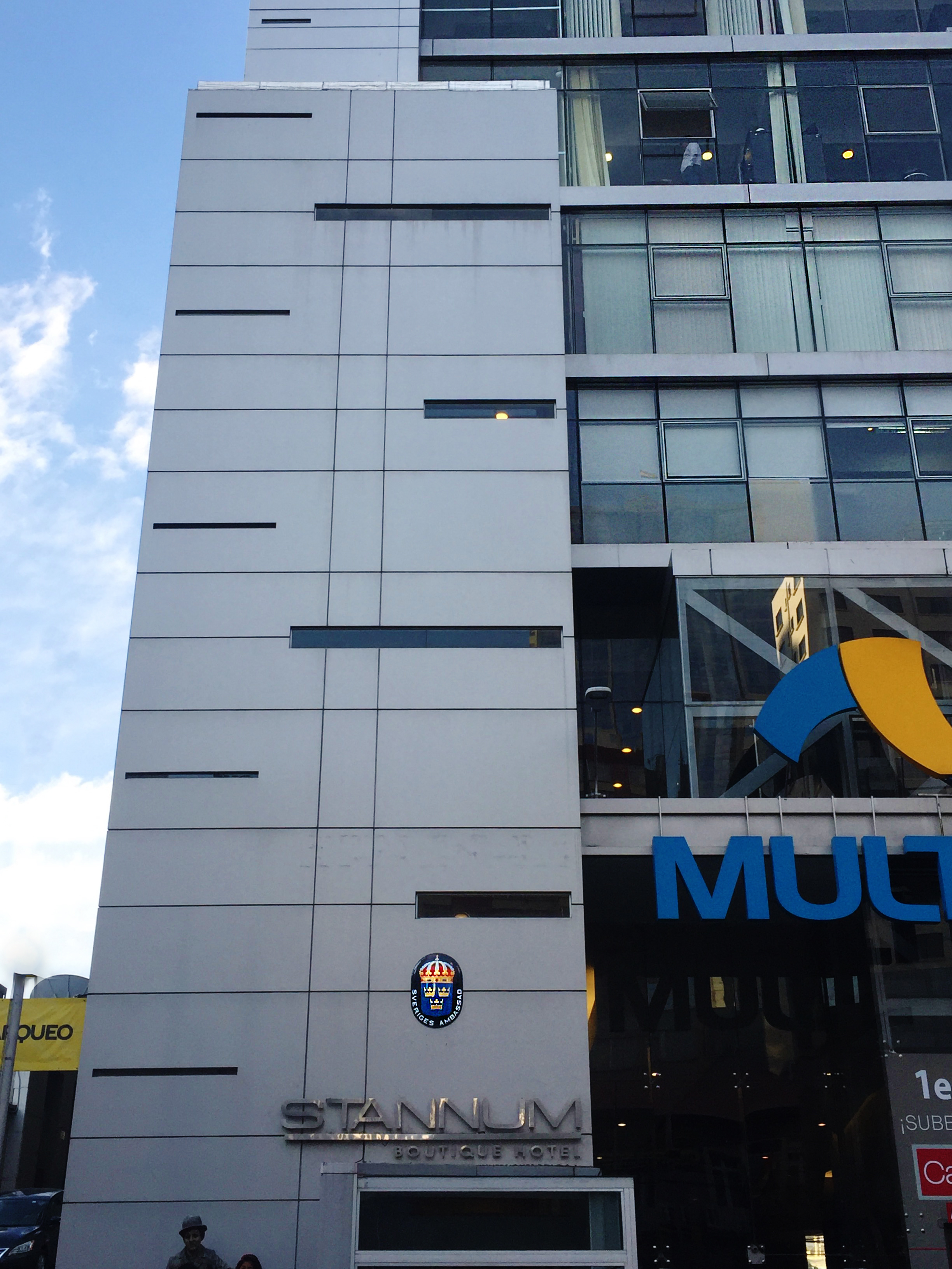 Embassy of Sweden in La Paz, Bolivia